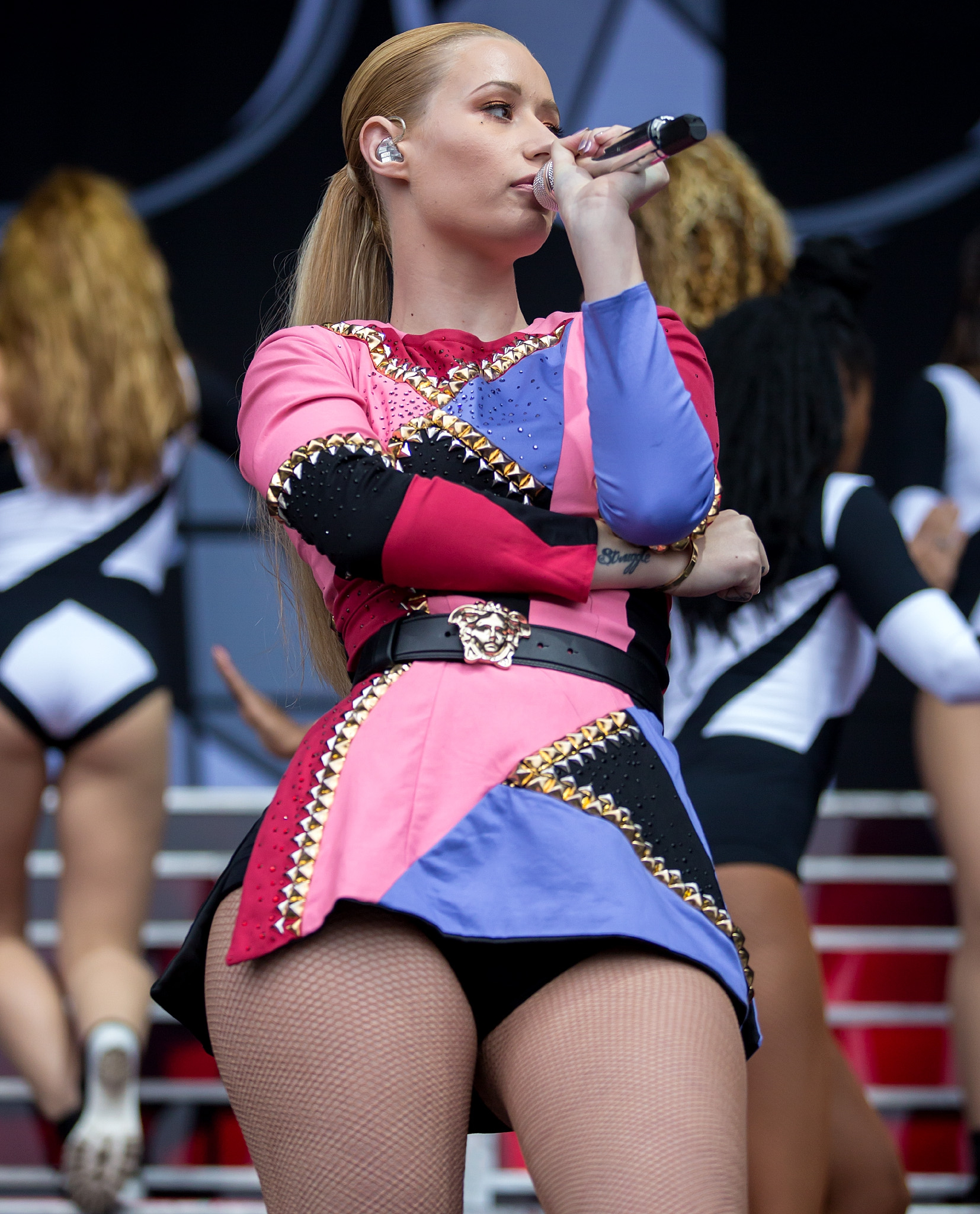 American hip hop artist Iggy Azalea at the ACL Music Festival in Austin